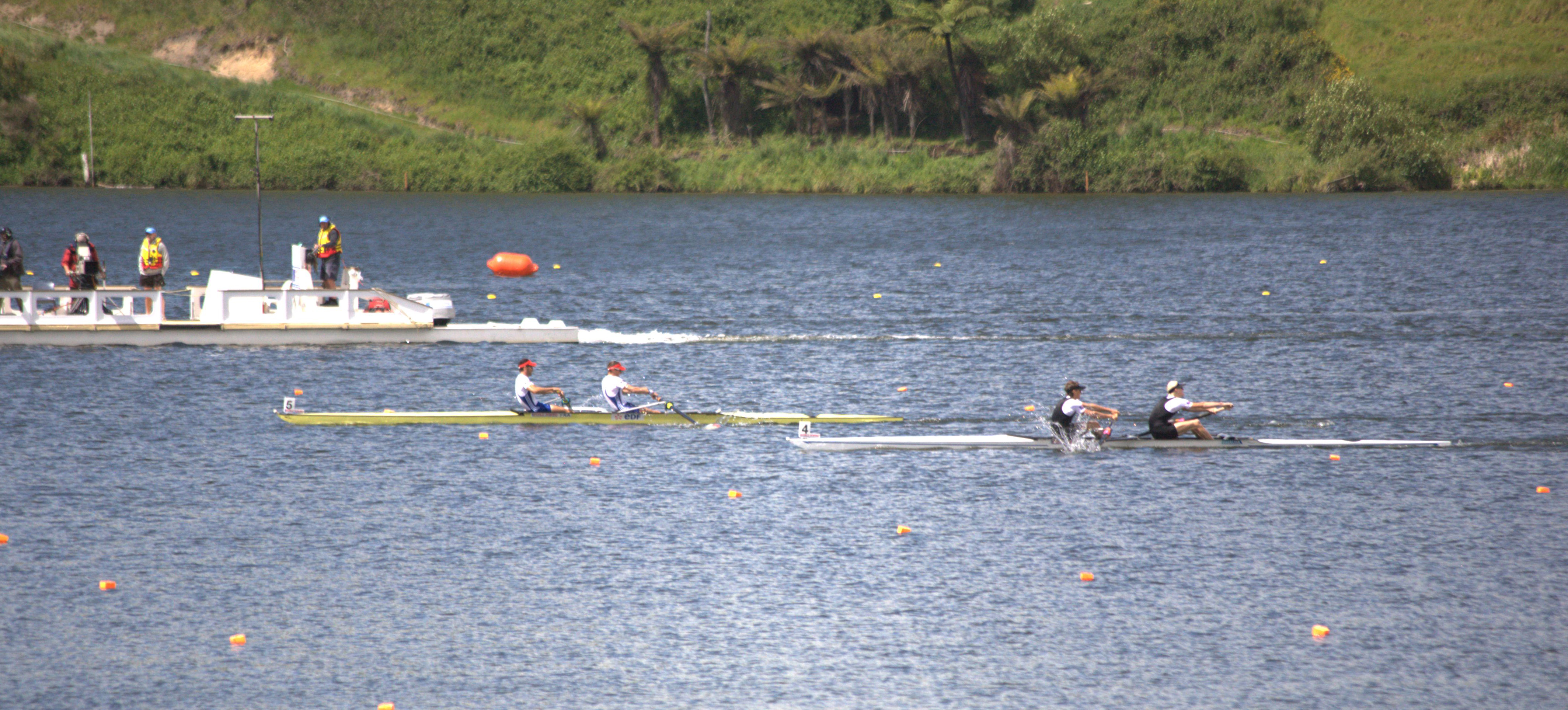 LM2- final 2010 World Rowing Championships: FRA - Fabien Tilliet and Jean-Christophe Bette; NZL - Graham Oberlin-Brown and James Lassche